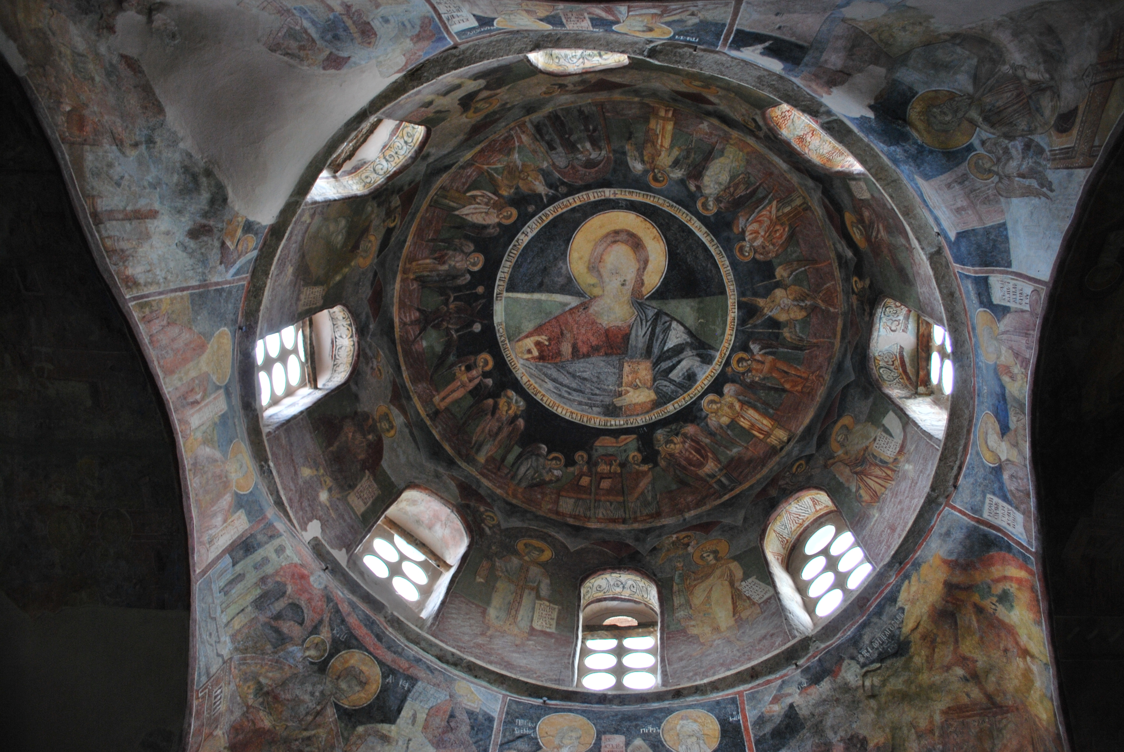 S Pantaleon Church in Gorno Nerezi Monastery, Macedonia